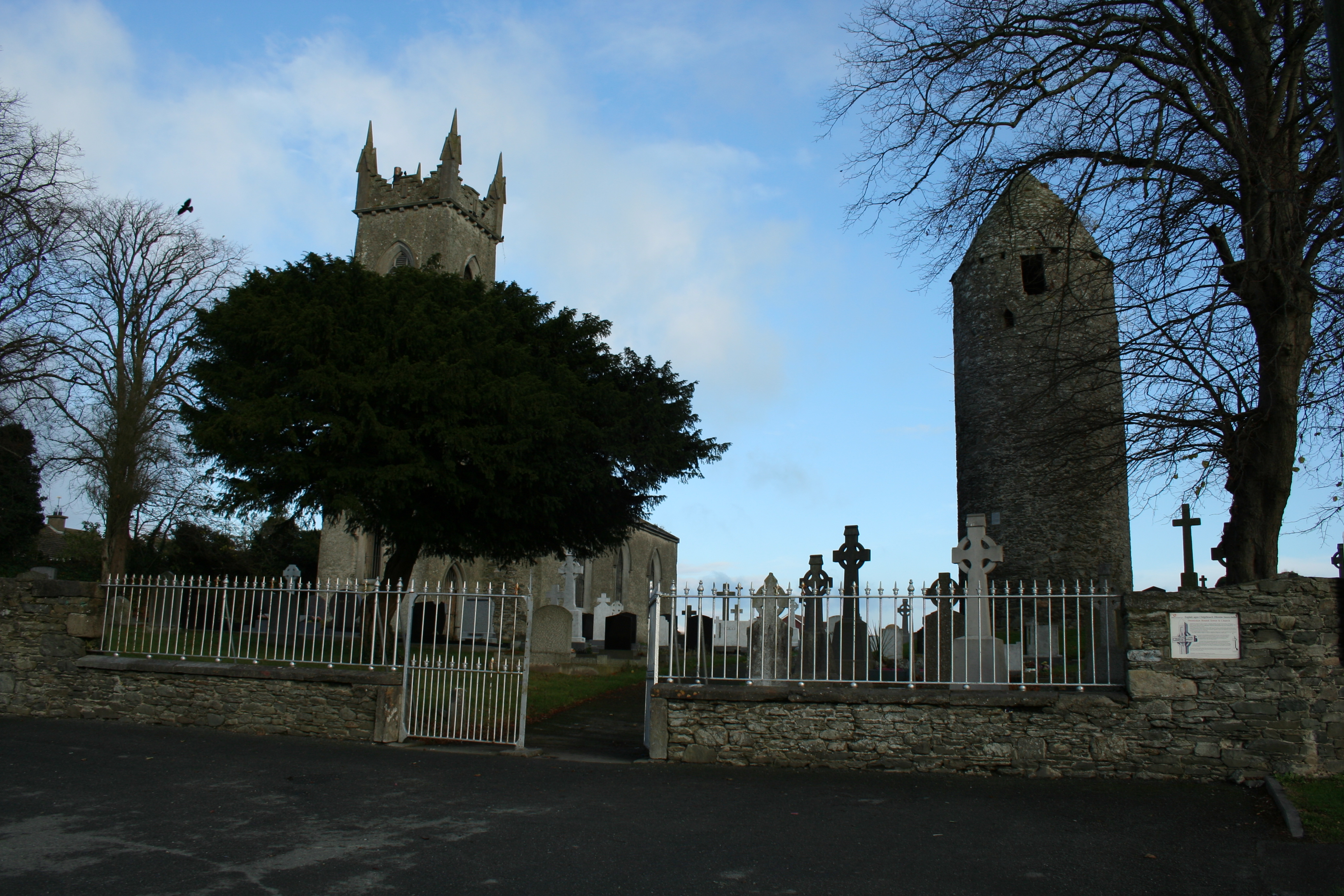 Round tower and cemetery at monastery site Dromiskin, County Louth Credit: A Peter Clarke image